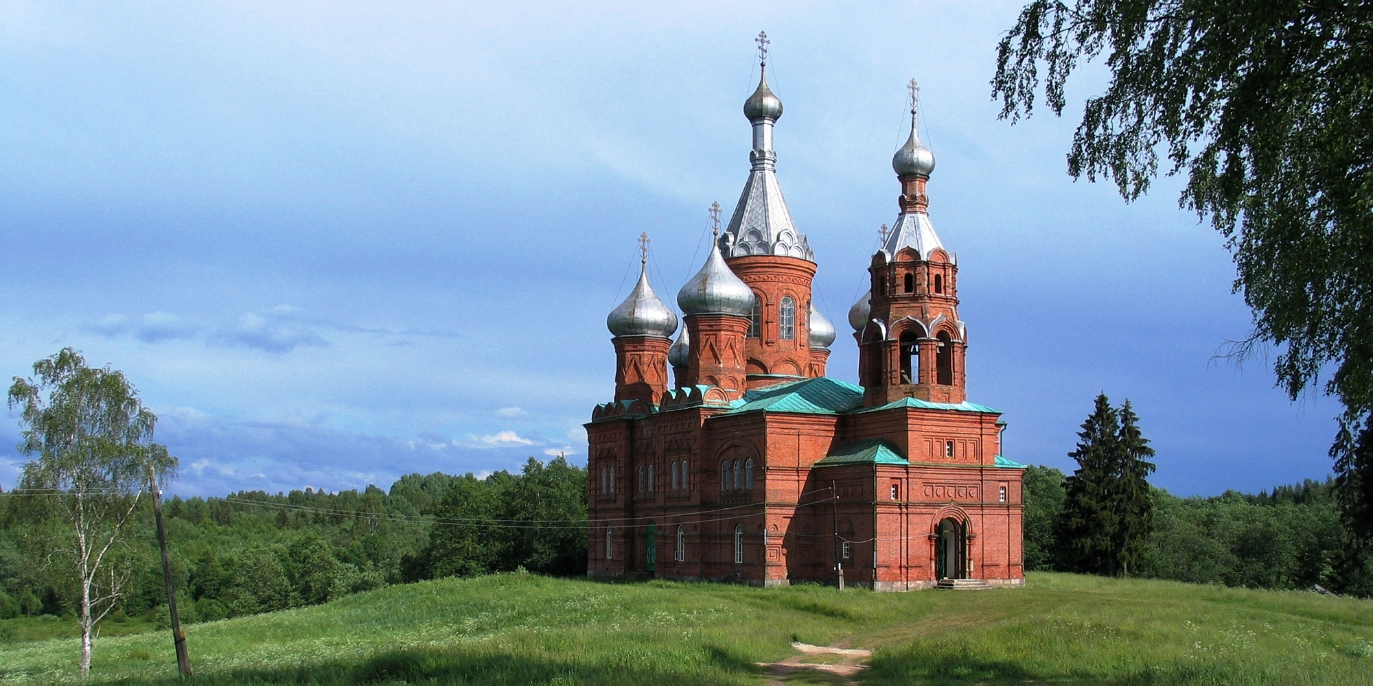 A church in Volgoverkhovie village.